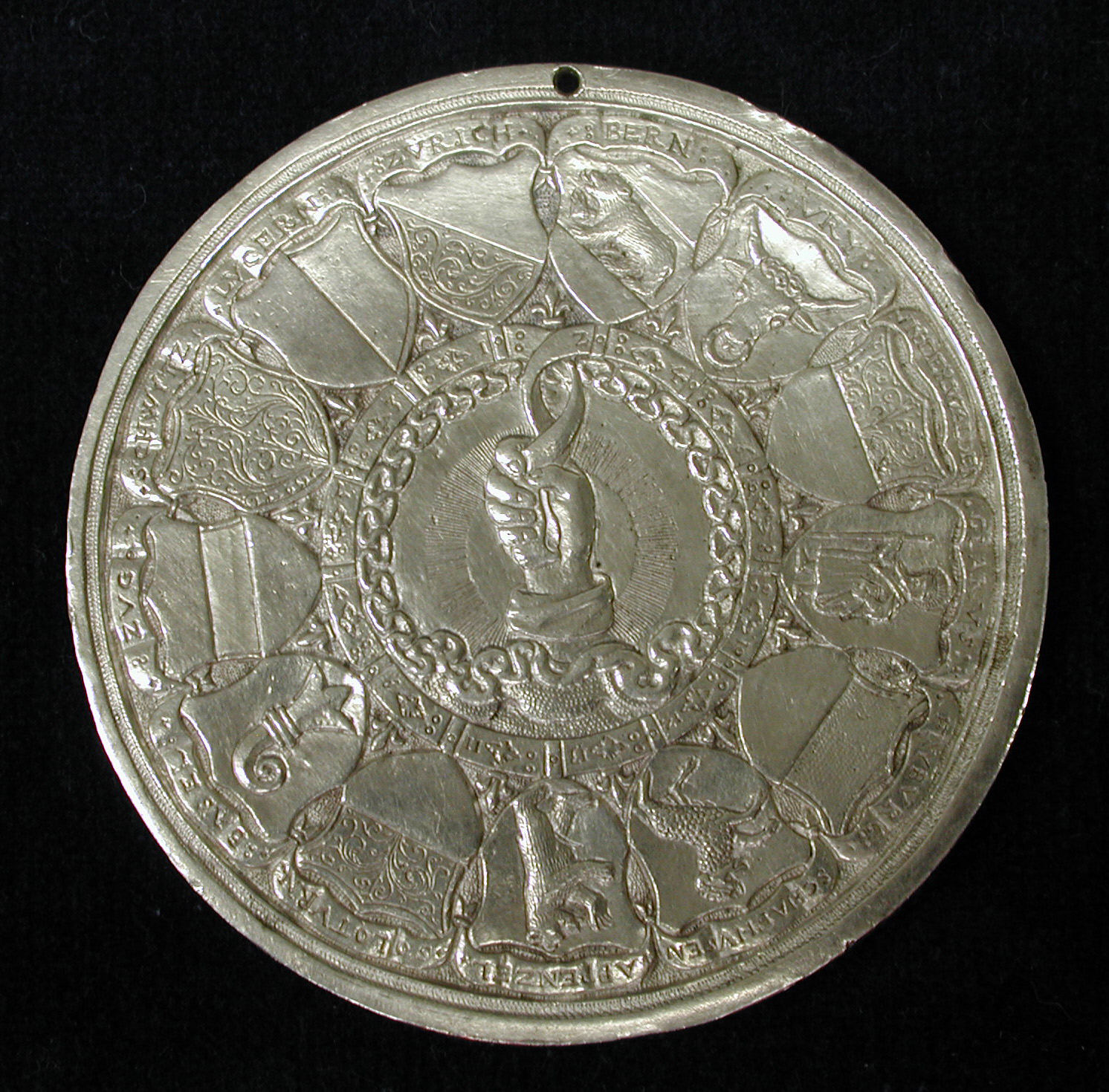 Medal Issued by the Swiss Cantons on the Birth of Princess Claude of France 1547. Silver, diameter 78 mm. Metropolitan Museum Accession Number: 2005.18 (reverse: File:Patenpfennig Stampfer 1547 rev.jpg) Coats of arms of the Thirteen Cantons, the Hand of God at the center. The Hand of God is clasping a belt or ribbon, to which the coats of arms are attached, and which shows their order of precedence (in Arabic numerals). 1 ZVRICH 2 BERN 3 LVCERN 4 VRY 5 SCHWYZ 6 VNDERWALDEN 7 GLARVS 8 ZVC 9 BASEL 10 FRYBVRG 11 SOLOTVRN 12 SCHAFHVSEN 13 APPENZEL